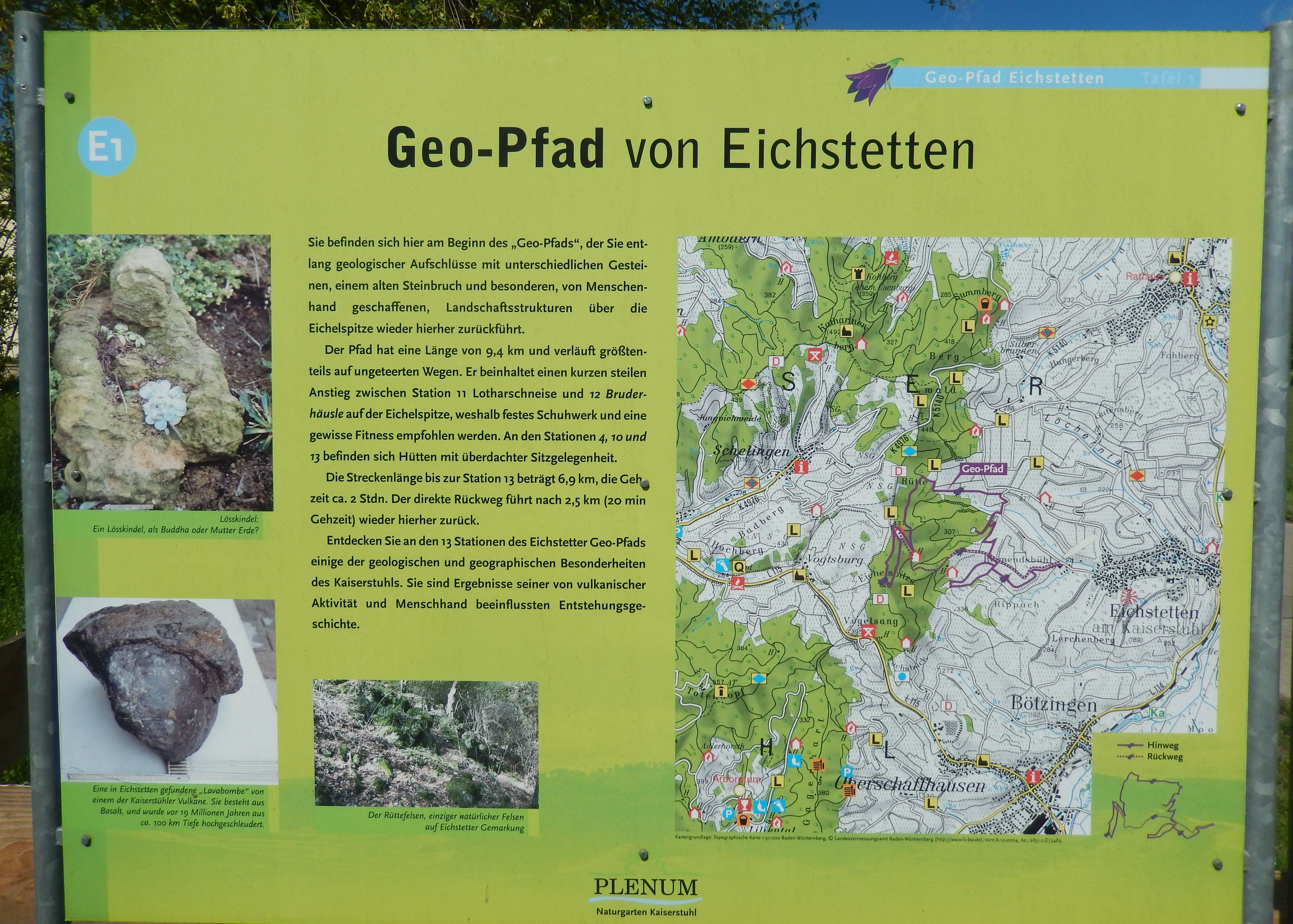 Info Point in Eichstetten, Germany.